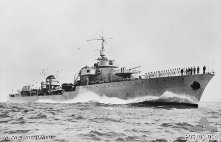 Starboard broadside view of the French Free Force ship, the large destroyer Triomphant.